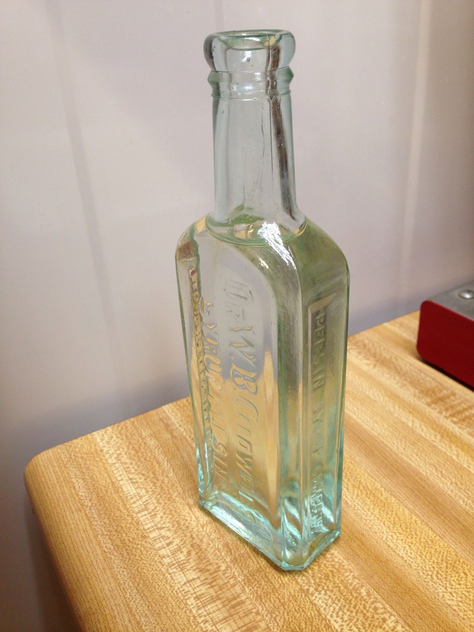 This is an old medicine bottle filled with water. It was discovered in Louisiana at the bottom of a gully during the later summer of 2016.